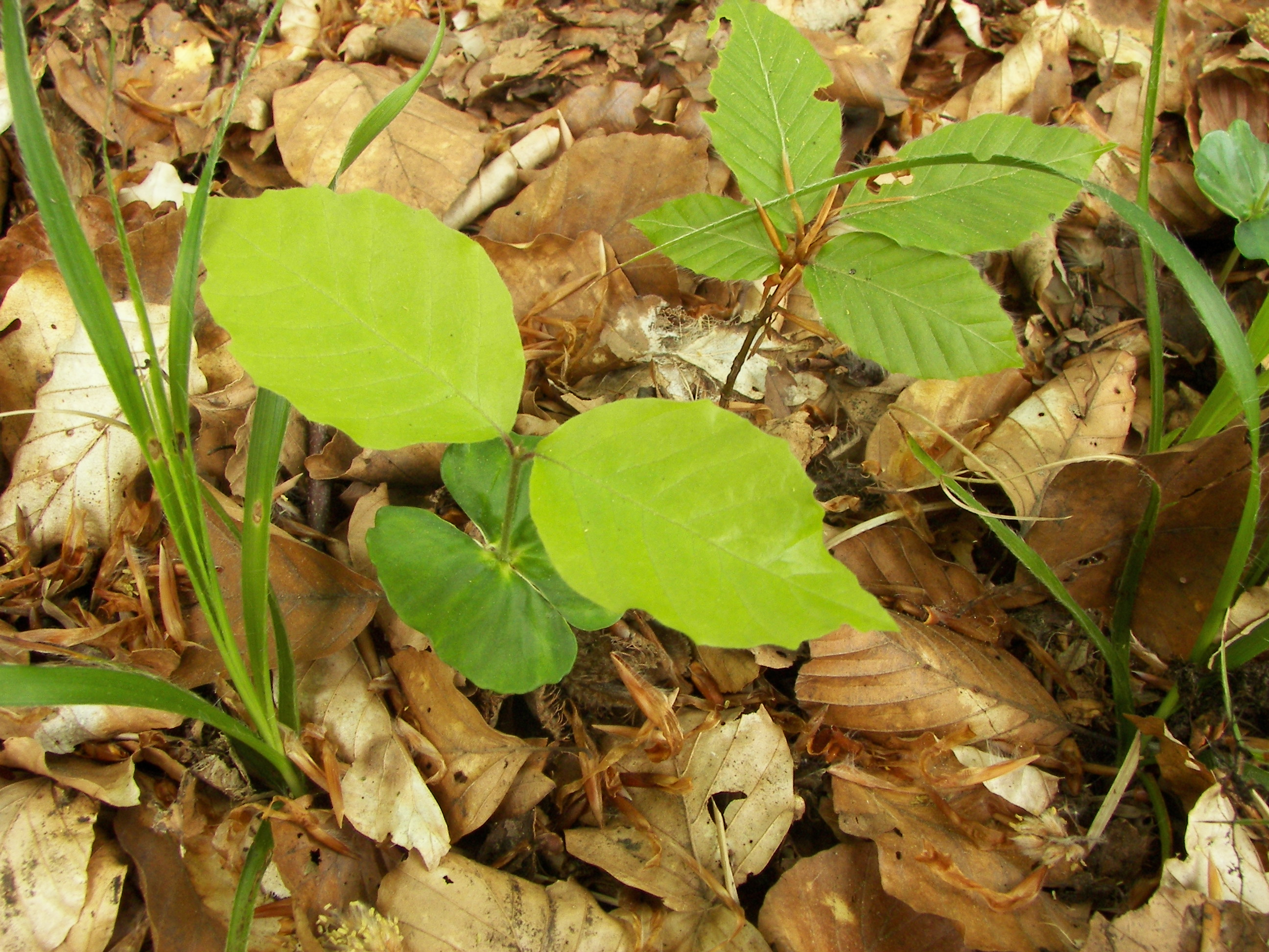 Seedling of the European Beech (Fagus sylvatica), Location: Nationalpark Kellerwald-Edersee near Schmittlotheim, Hesse, Germany